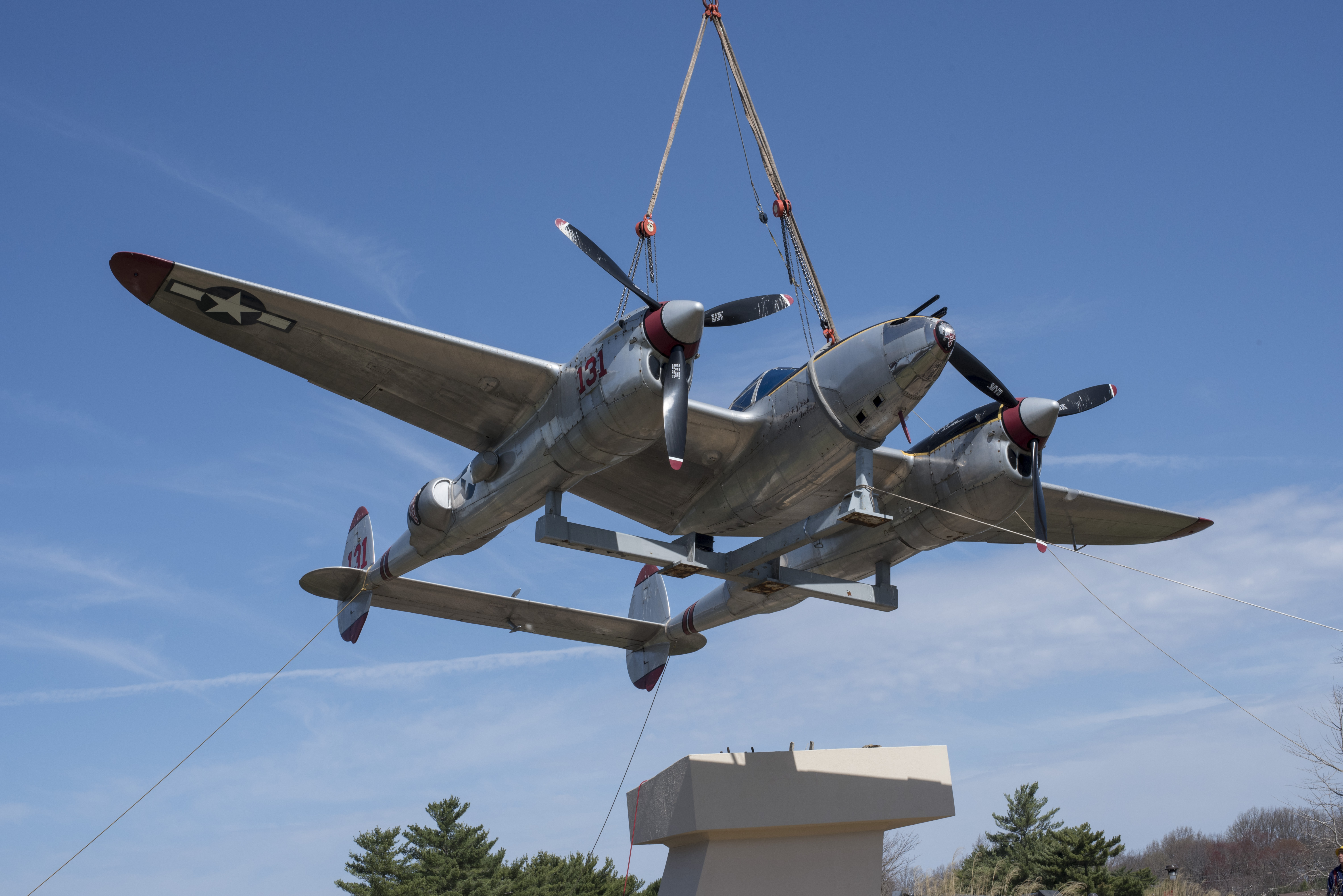 The P-38 Lightning Pudgy static display, christened Pudgy, is lifted off its pedestal before being loaded onto a flatbed to be moved to a hangar on Joint Base McGuire-Dix-Lakehurst, N.J., April 13, 2015. Pudgy (44-53015) has been on display at the base since 1981 and is a memorial to Medal of Honor recipient Maj. Thomas B. McGuire, after which the former McGuire Air Force Base was named.